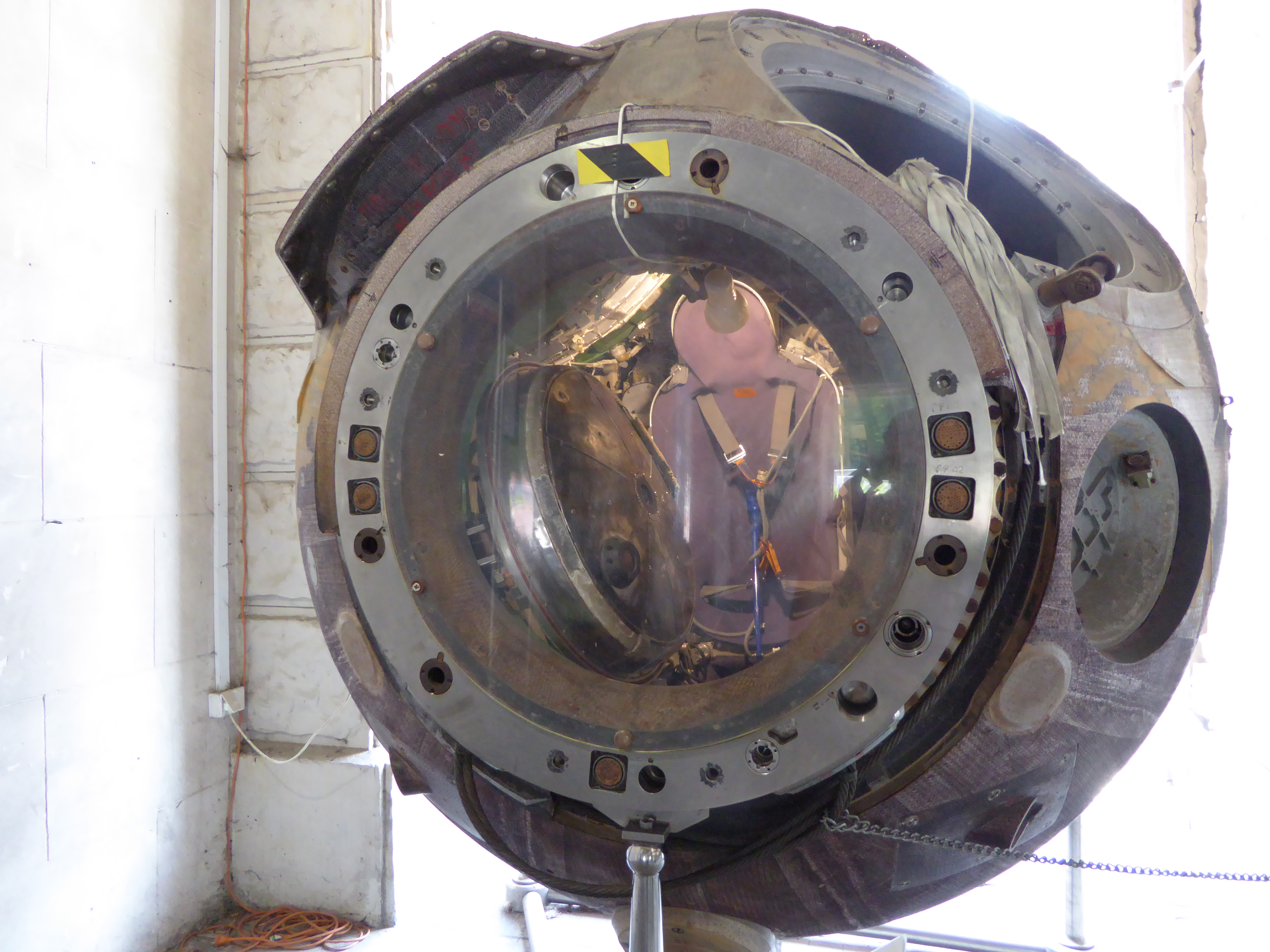 Soyuz 30 landing capsule on display in the Polish Army Museum in Warsaw. Mirosław Hermaszewski (the first Polish man in space) returned to Earth in this capsule on 5th July 1978.